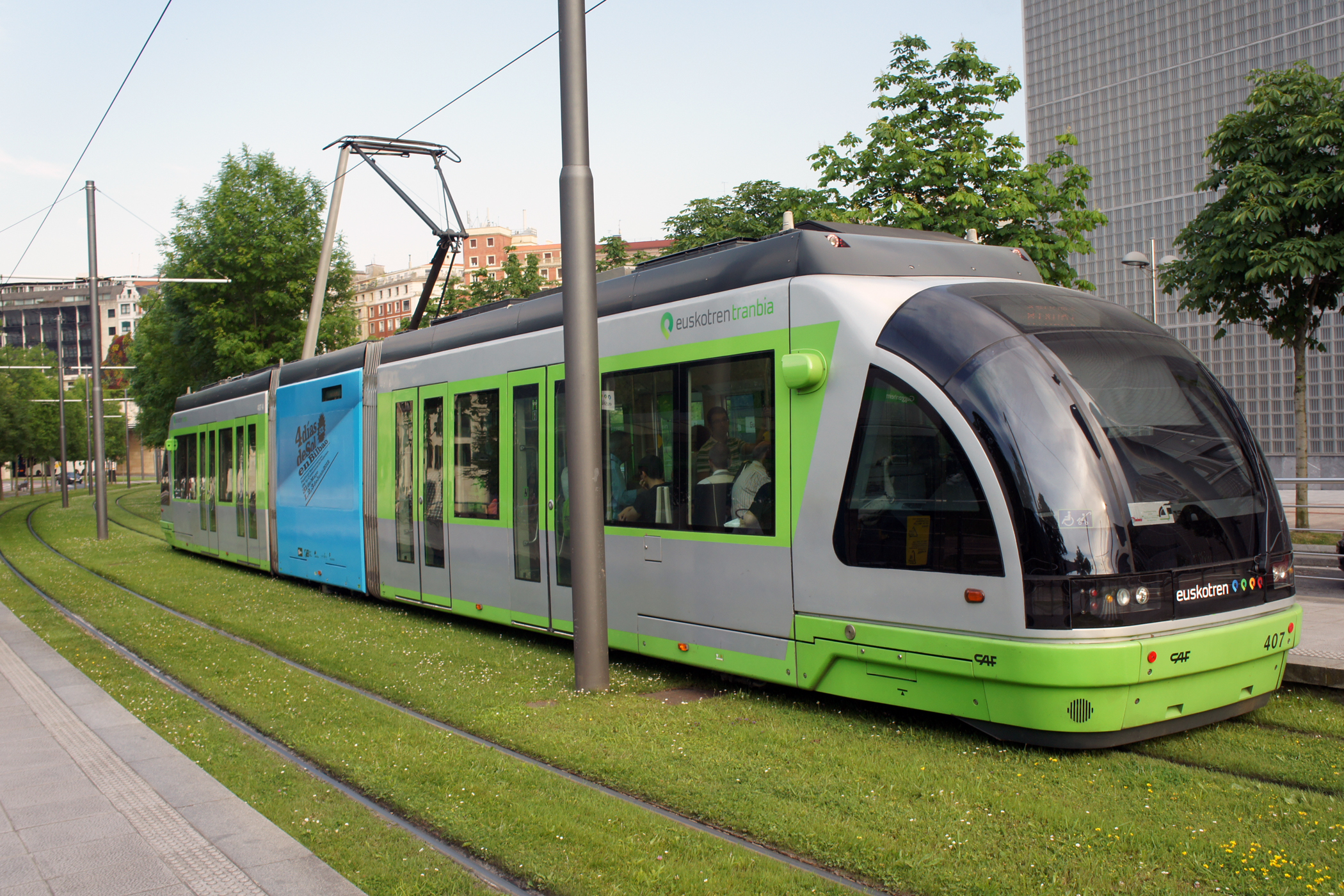 Bilbao EuskoTran near Gugenheim station